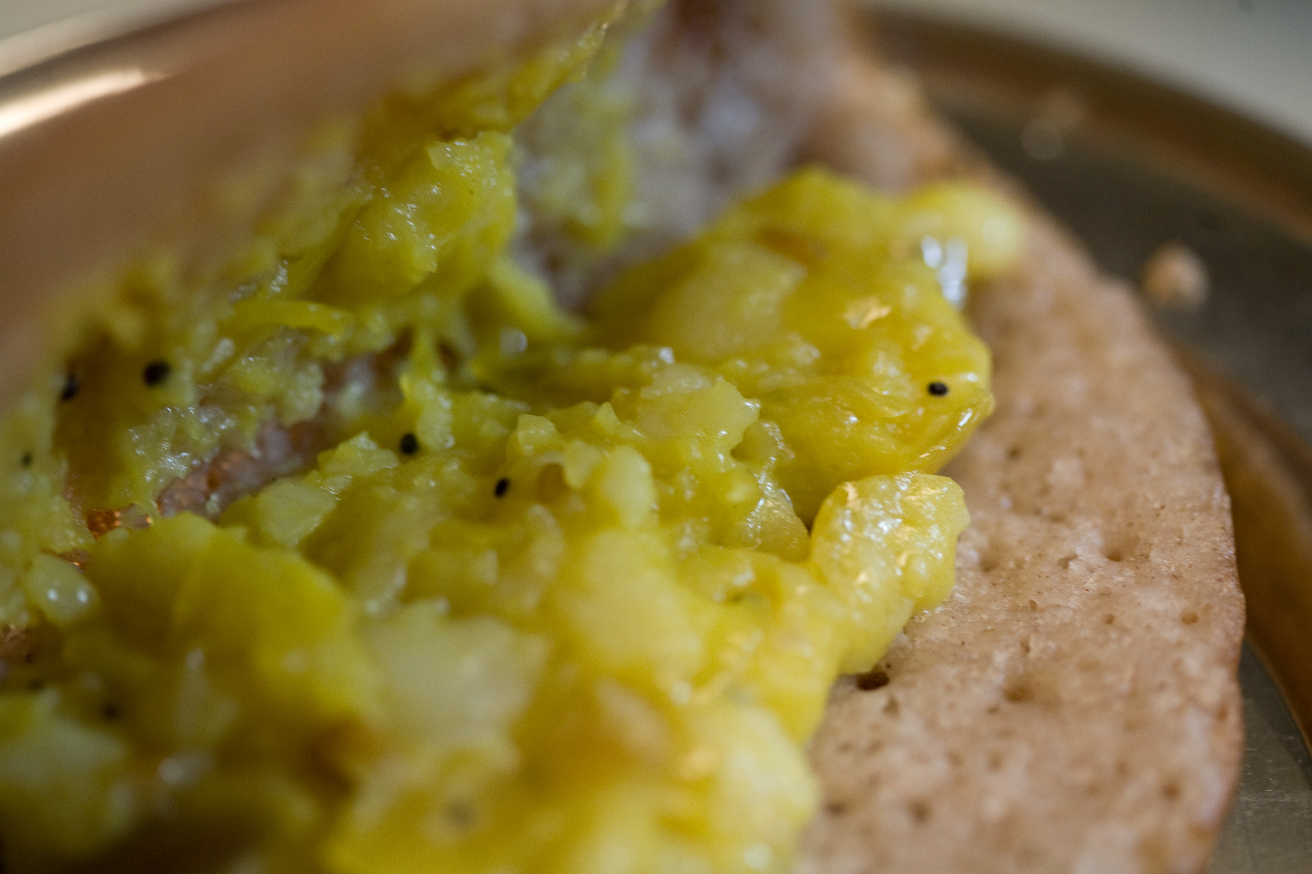 Masala dosa before rolling; shows filling of Aloo Masala